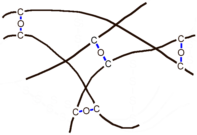 Metal oxide vulcanization. Example of a vulcanizate.